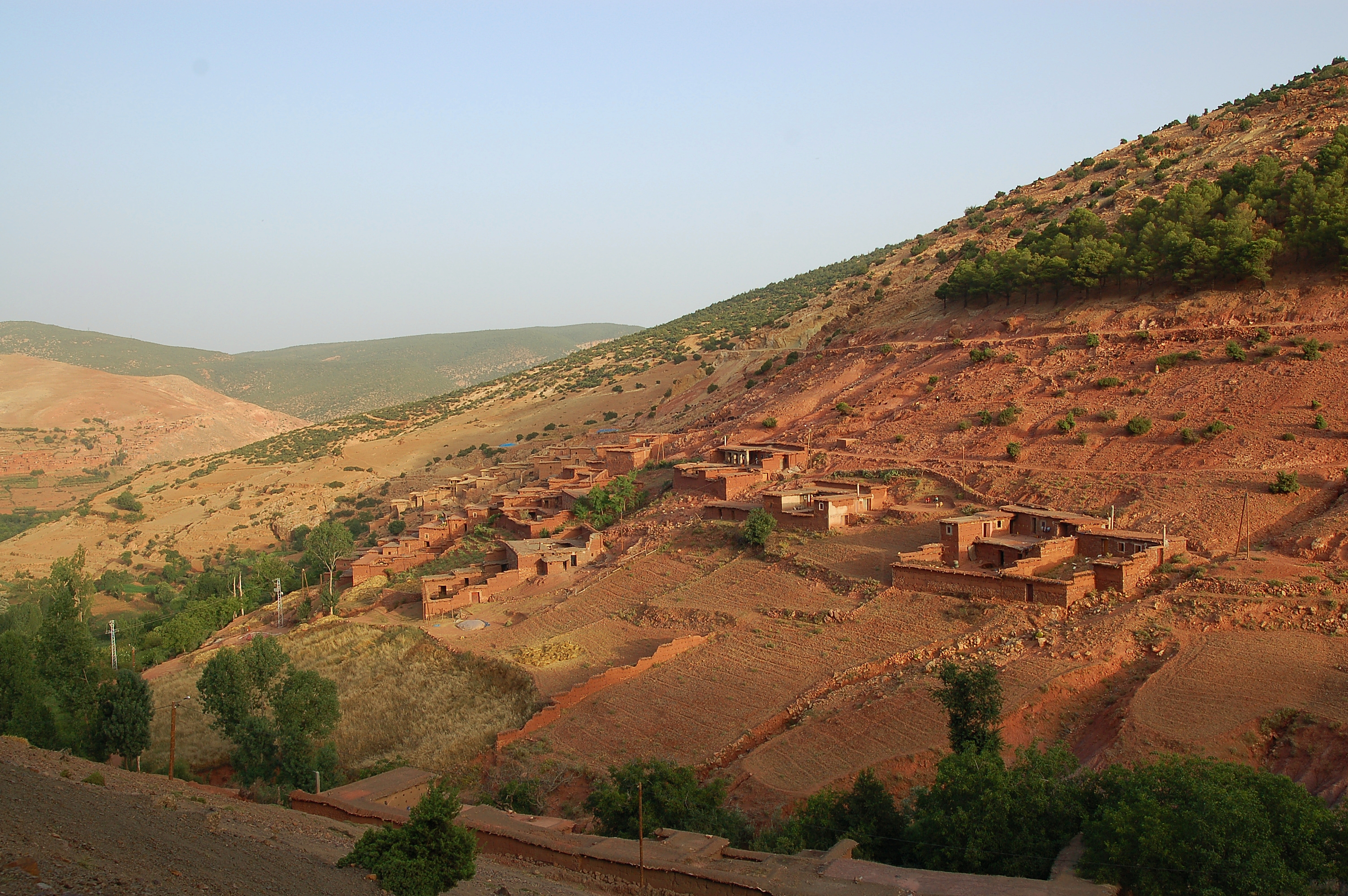 Morroco Berber village in the high Atlas Imlil valley.